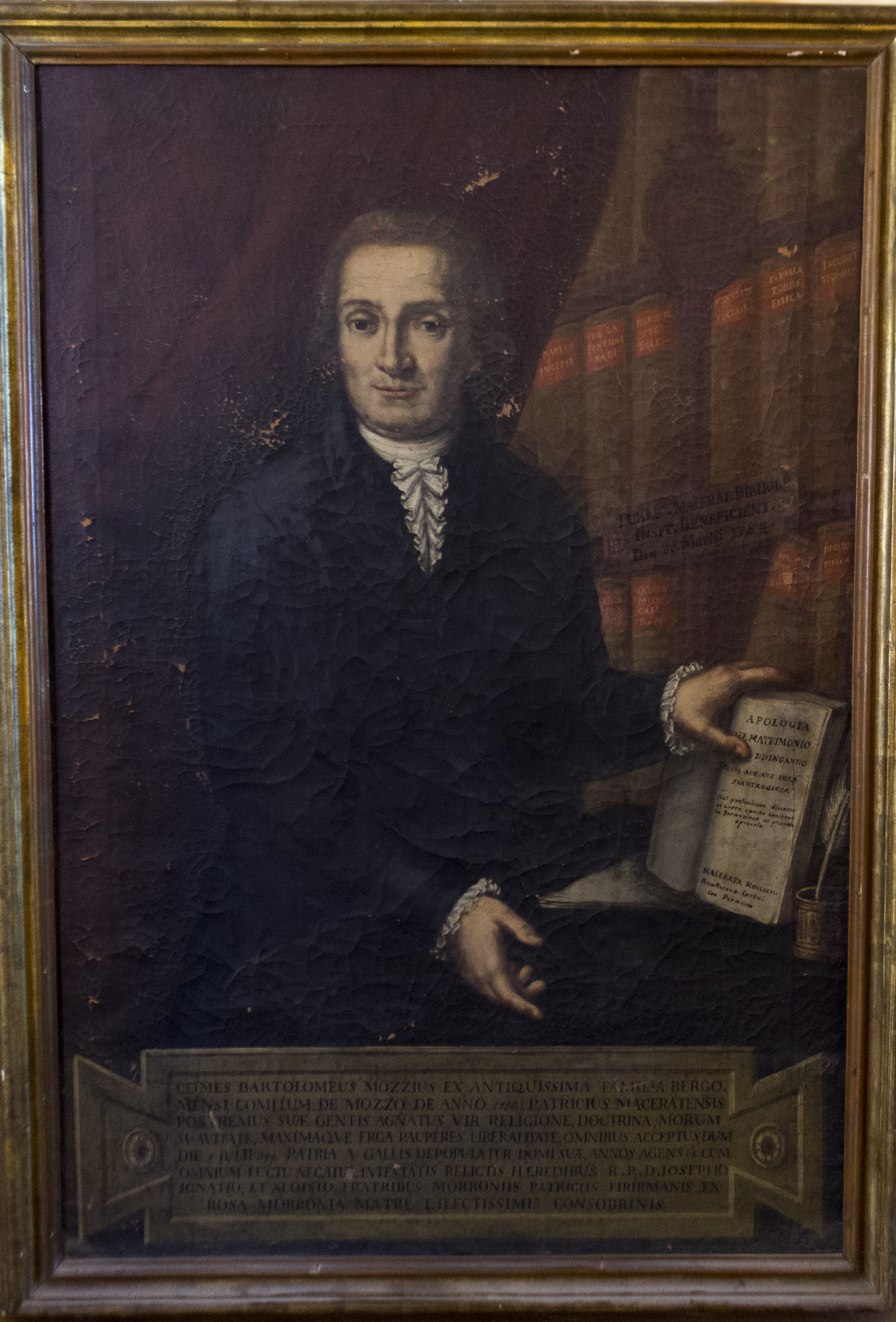 mozzi borgetti